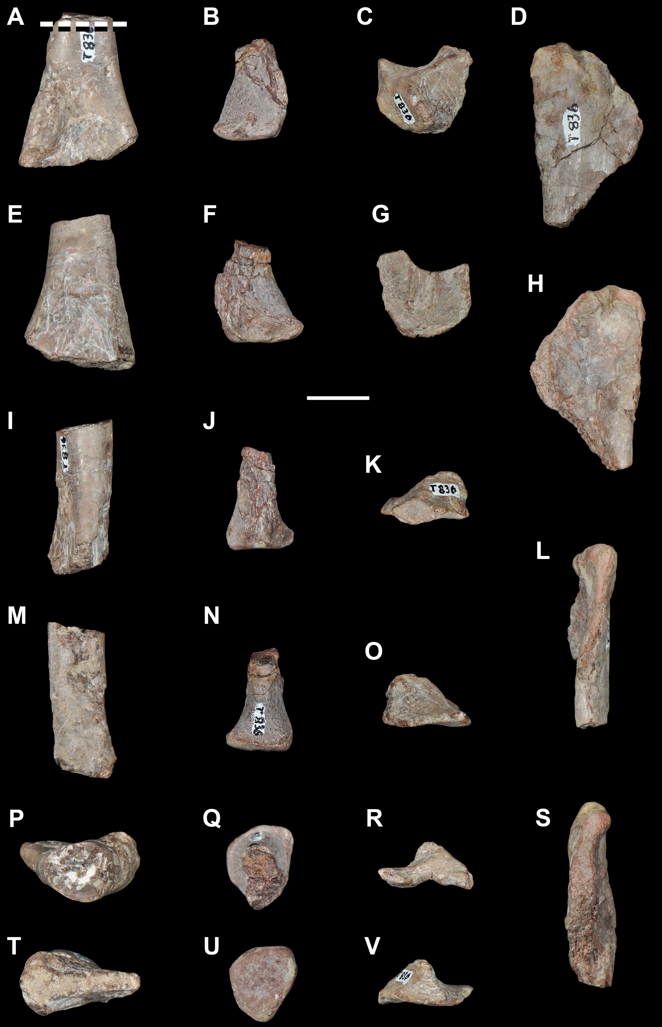 Aenigmastropheus parringtoni, an early archosauromorph from the middle Late Permian of Tanzania. Possible left humeral shaft (A, E, I, M, P, T), possible distal end of radius (B, F, J, N, Q, U) and two indeterminate bones (C, D, G, H, K, L, O, R, S, V) (UMZC T836, holotype) in several views. The dashed line indicates the area sampled for the paleohistological study. Scale bar equals 1 cm.